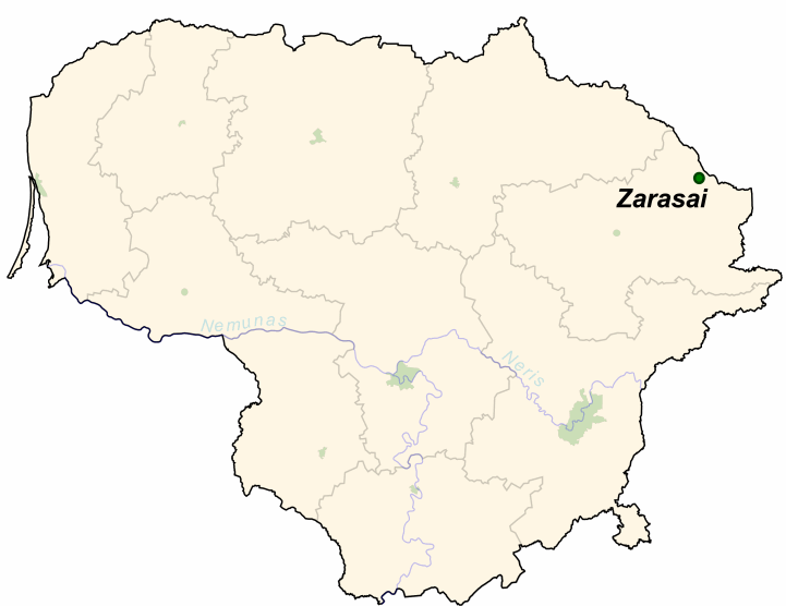 Zarasai on the map of Lithuania